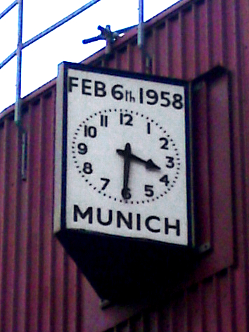 The Munich Clock on the South-East corner of Old Trafford, Manchester, commemorating the Munich air disaster of 1958